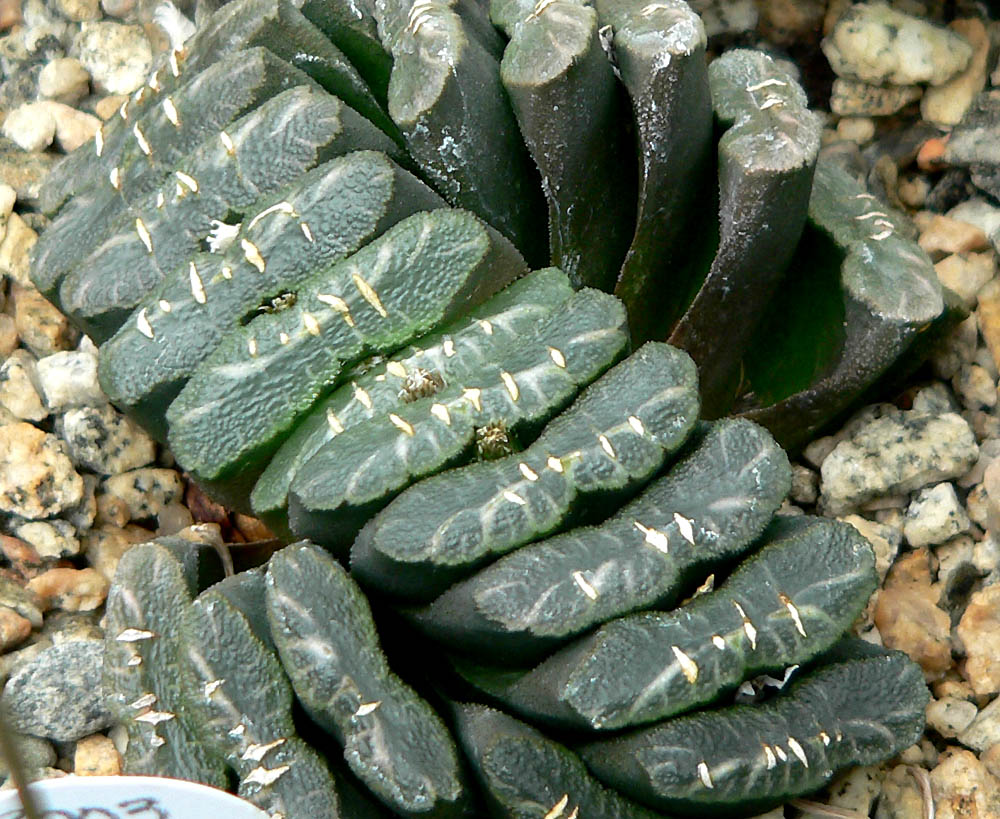 Photo of Haworthia truncata at the University of California Botanical Garden